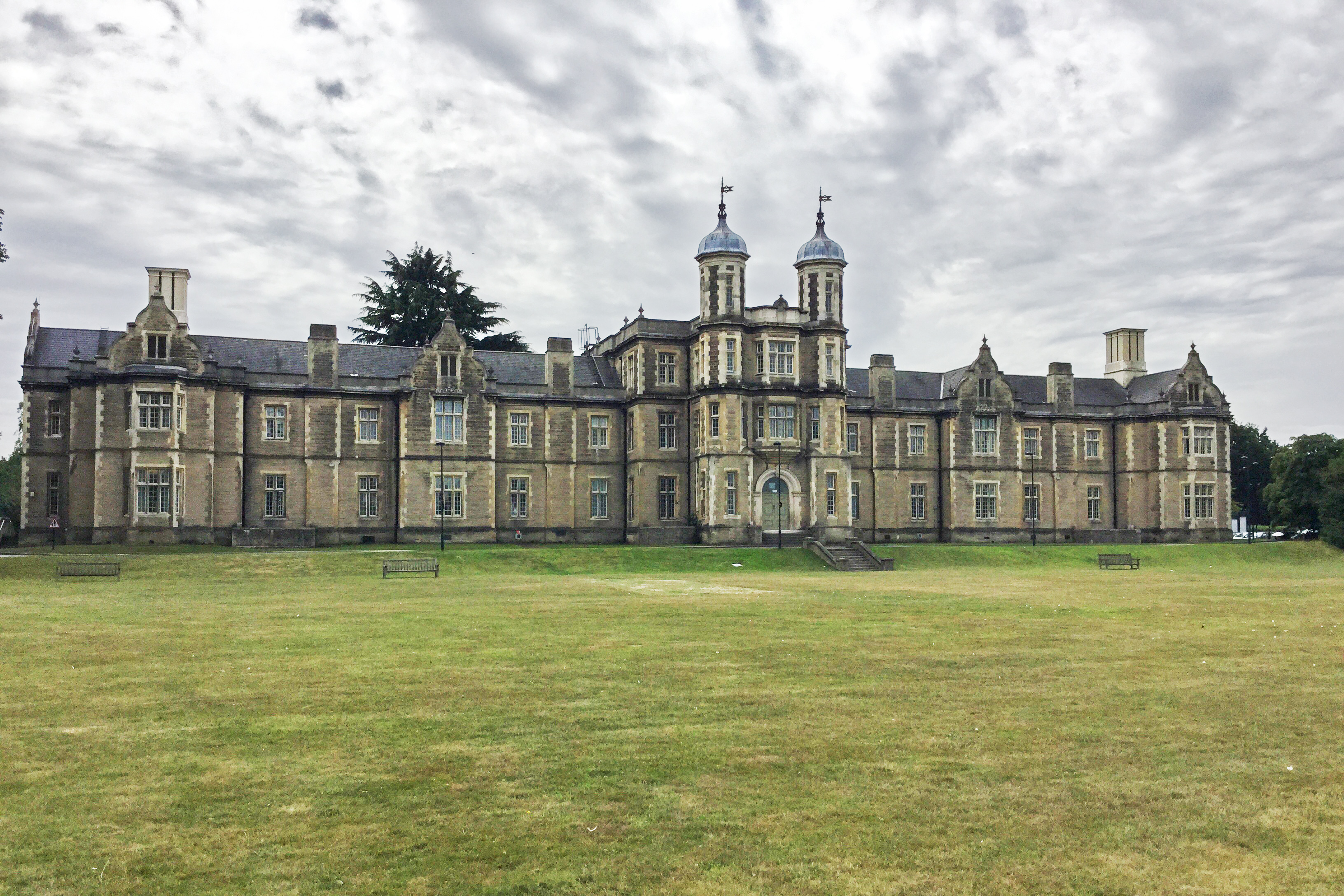 Snaresbrook Crown Court from a south view